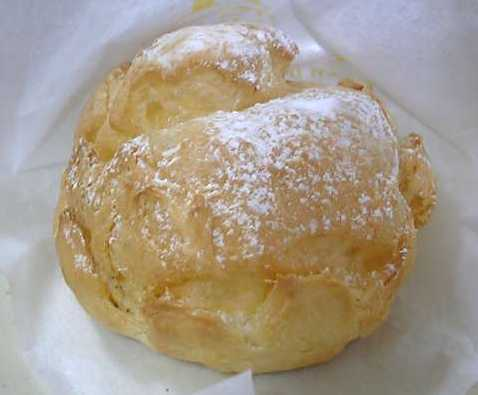 cream puff